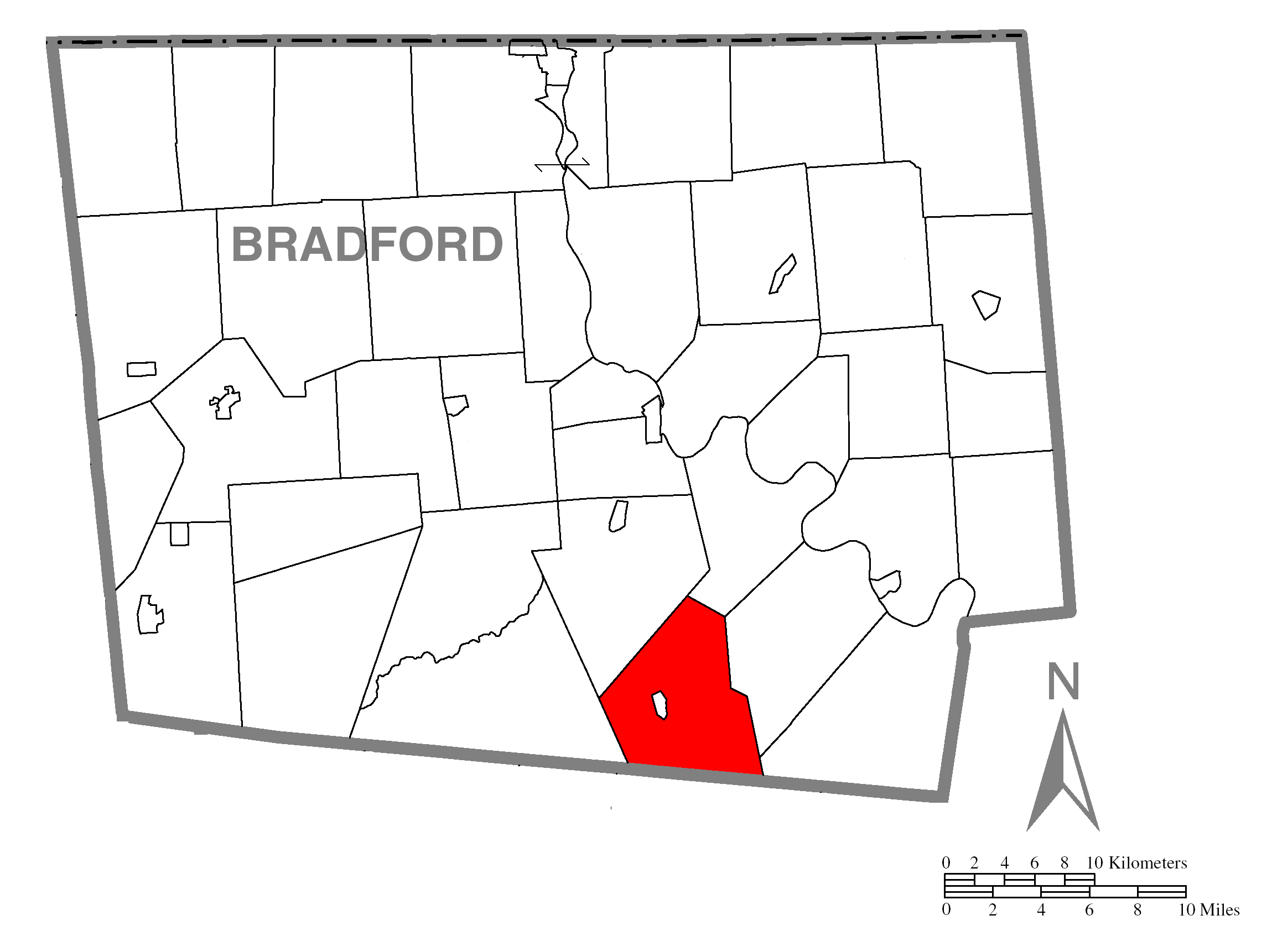 A map of Bradford County showing Albany Township, Pennsylvania (alternate) highlighted on the map.